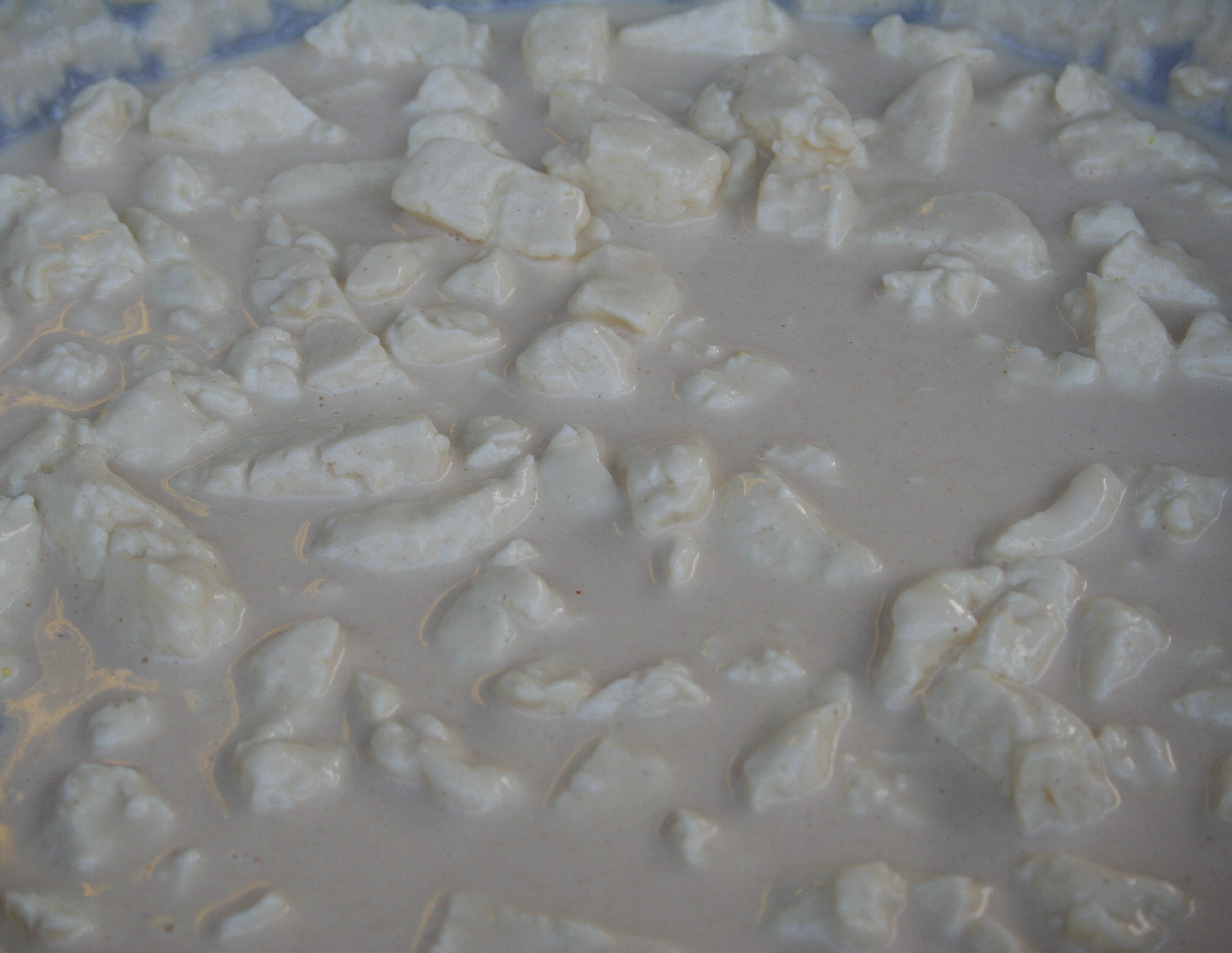 Cheese curds covered in beer batter in preparation for deep frying at the Gopher Count annual community festival in Viola, Minnesota